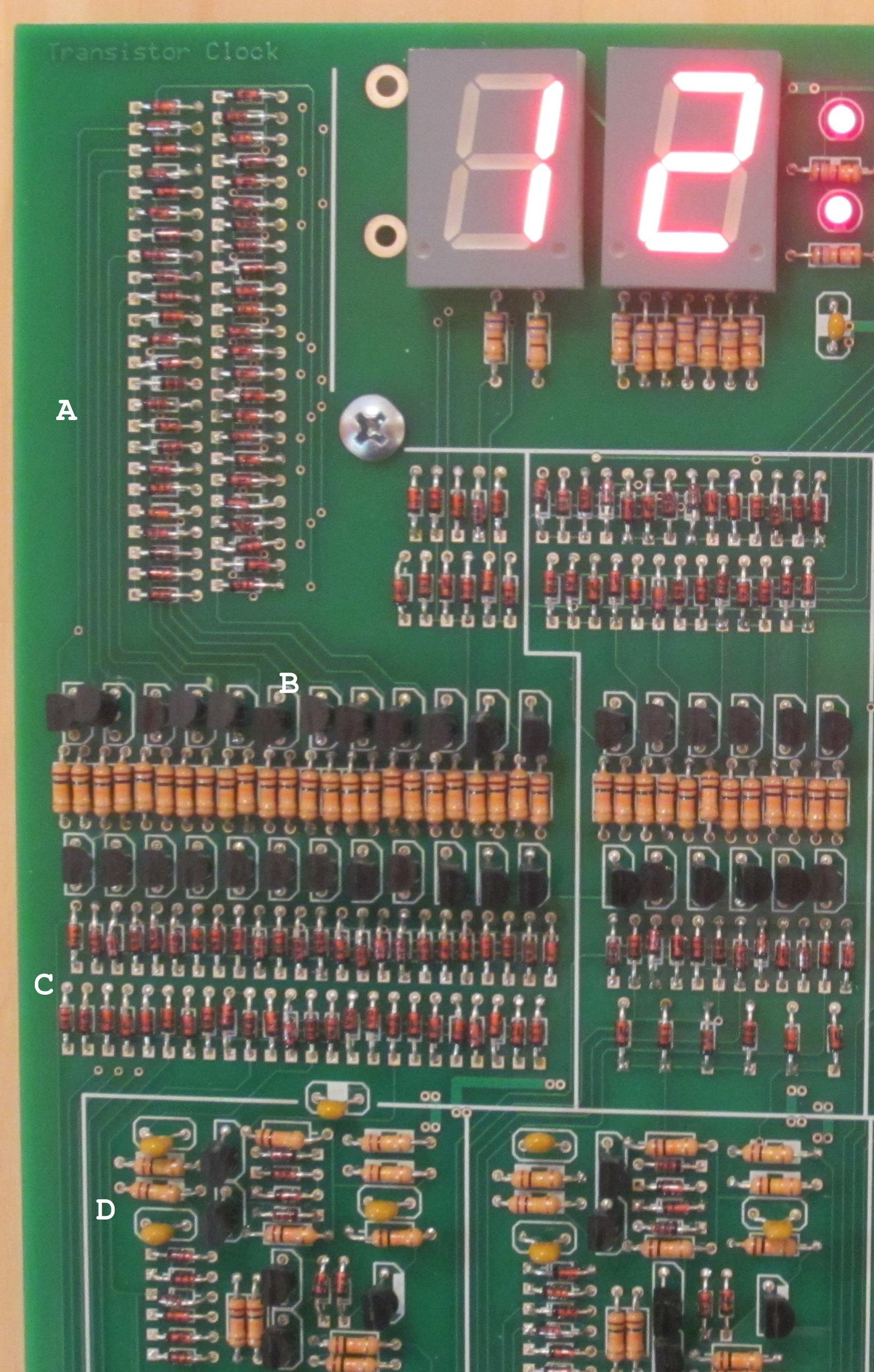 Diode-transistor logic in a discrete transistor clock. The diodes at A decode 1 of 12 lines to light the seven segment displays to show the hours 1 to 12. The transistors at B drive the decode diodes and displays. The diodes at C trigger one of the 12 pairs of transistors based on the state of the transistor flip-flops at D. Additional diodes in the chain of flip flops allow this to count hours.